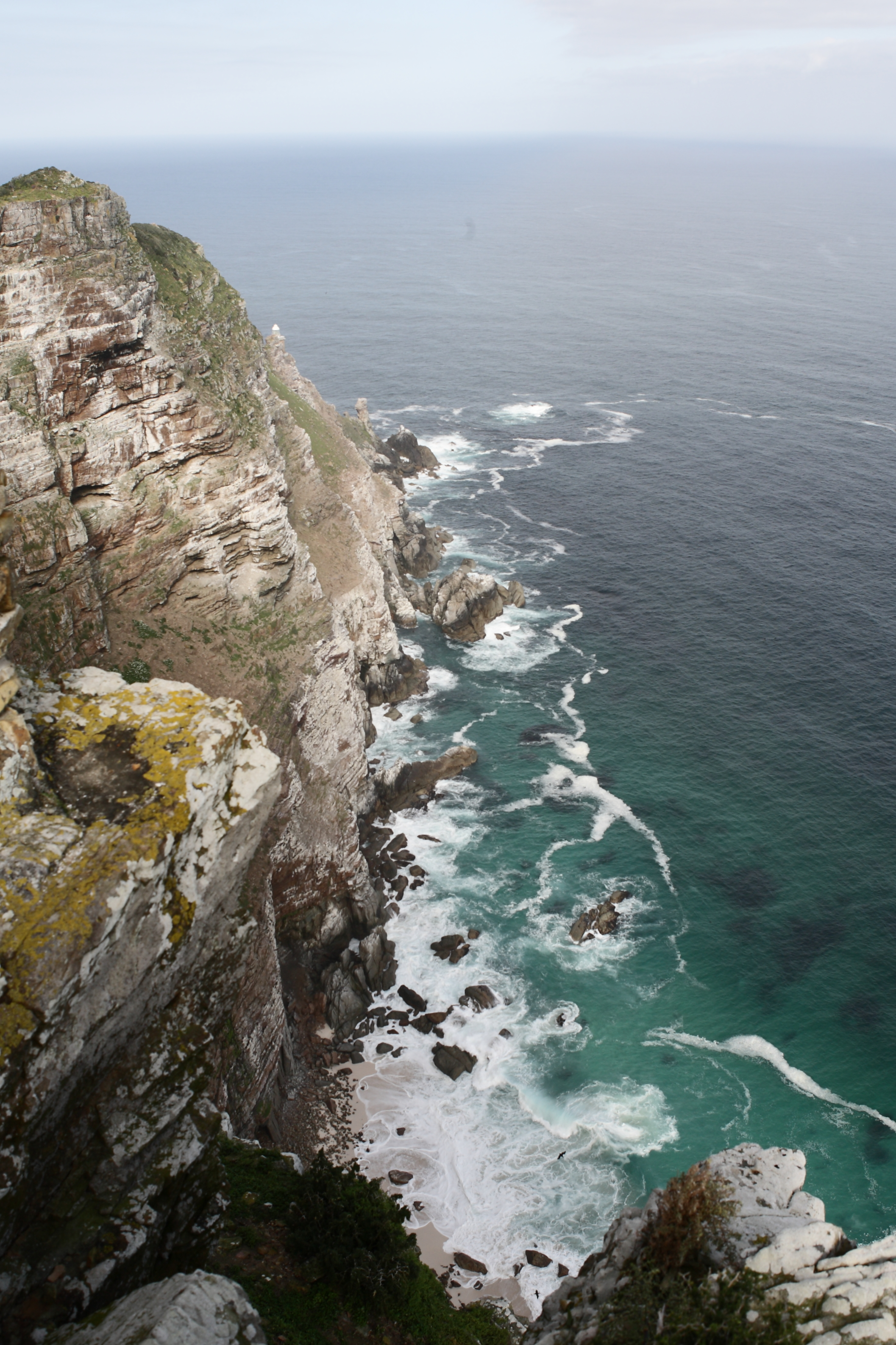 View over Cape Point; the lighthouse's white dome is just visible.